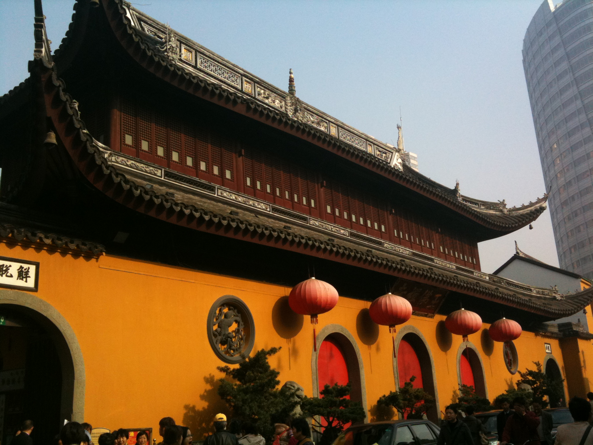 Jade Buddha Temple in Shanghai